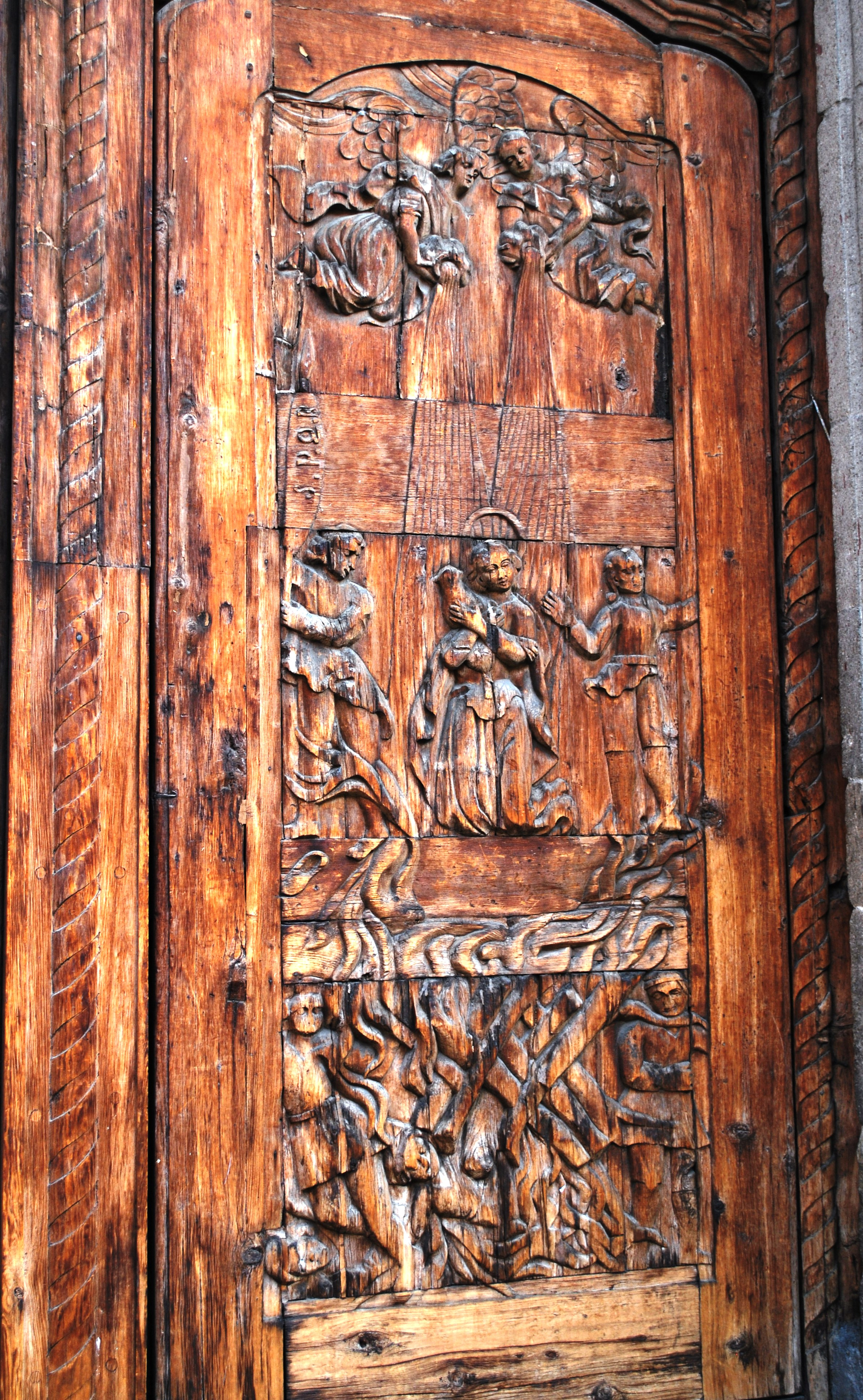 One of the reliefs carved into the main doors of the Santa Inés Church in the historic center of Mexico City. This scene depicts Santa Inés or Agnes of God.